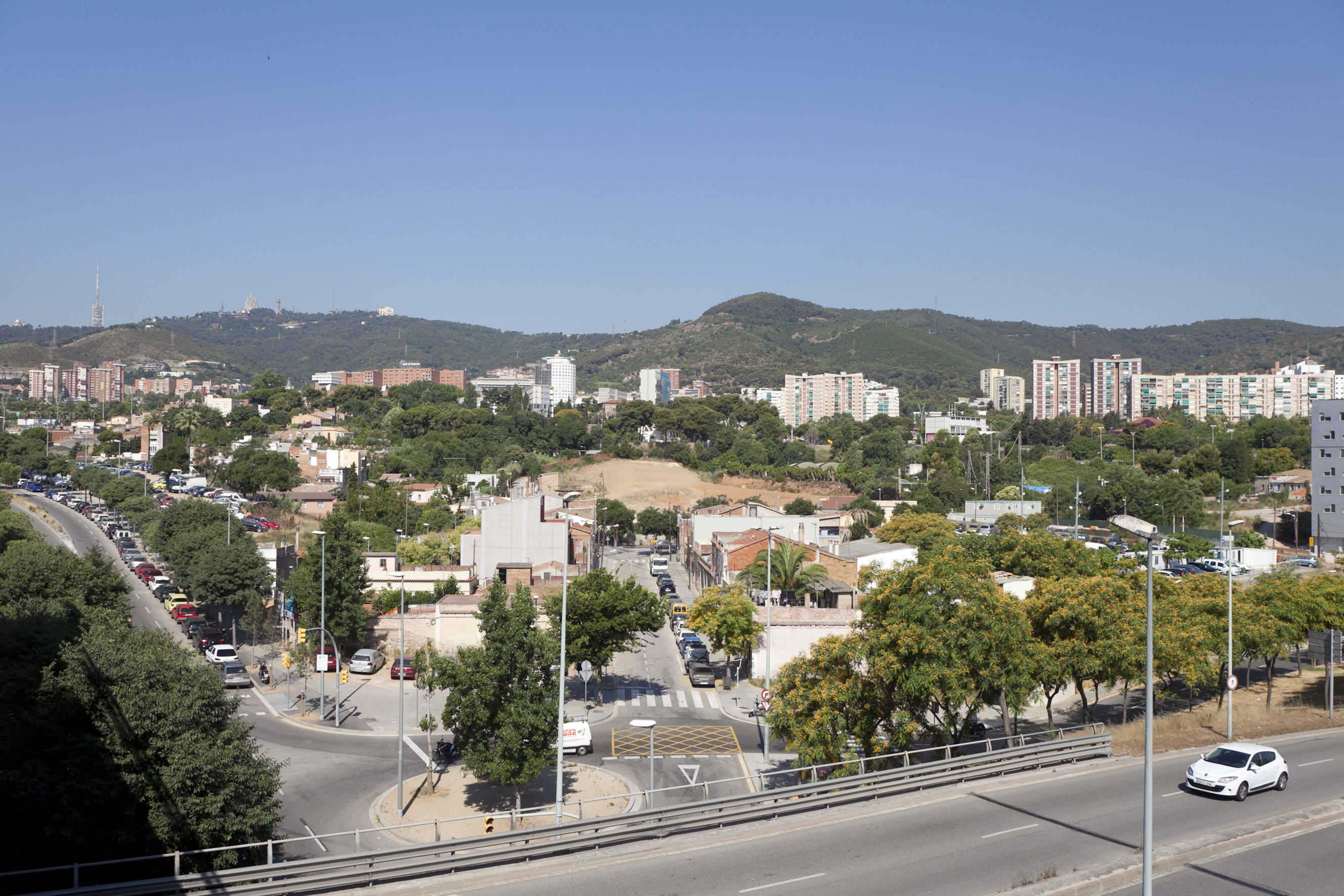 Historical Routes at the Horta-Guinardó District Administration in Barcelona This image was provided to Wikimedia Commons by the Horta-Guinardó District Administration in Barcelona as part of an ongoing cooperative project with Amical Viquipèdia. English | +/−